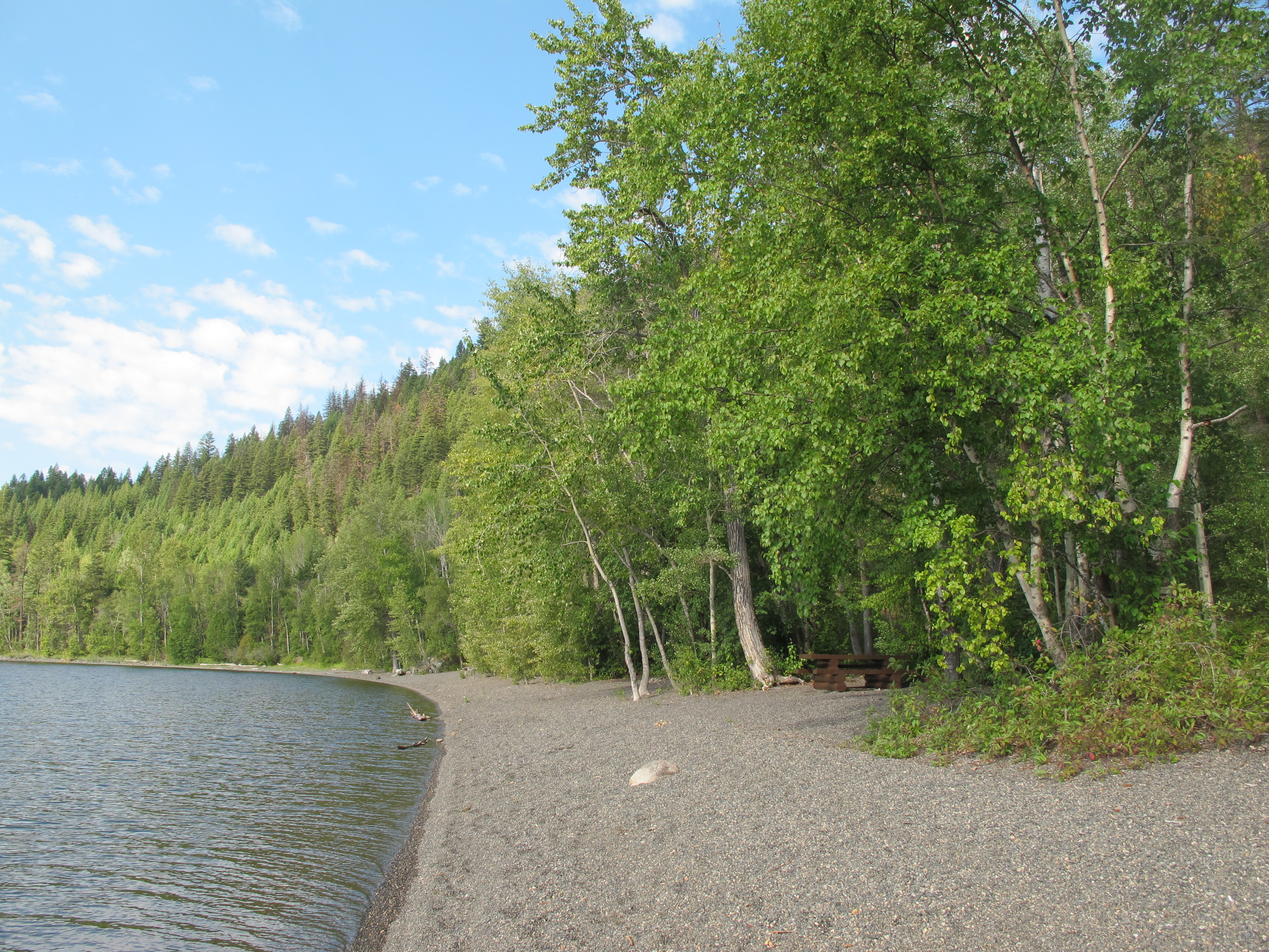 A Picture of Canim Beach Provincial Park from the Shore